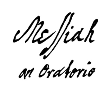 George Frideric Handel's autograph manuscript of the title page of Messiah, 1741: Fascimiles of this were already reproduced with permission and sold before 1903.[1]